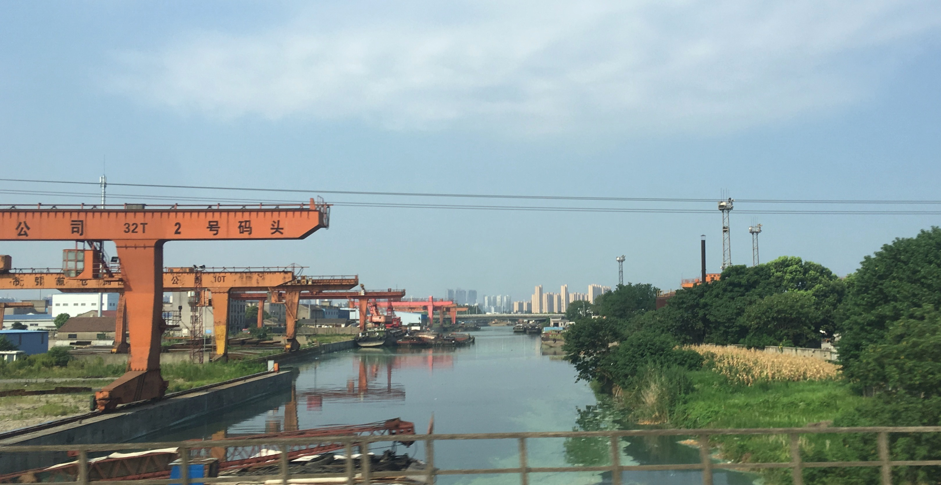 The Yangwanli Port is a short inlet of the Grand Canal in Wuxi, Jiangsu (China)